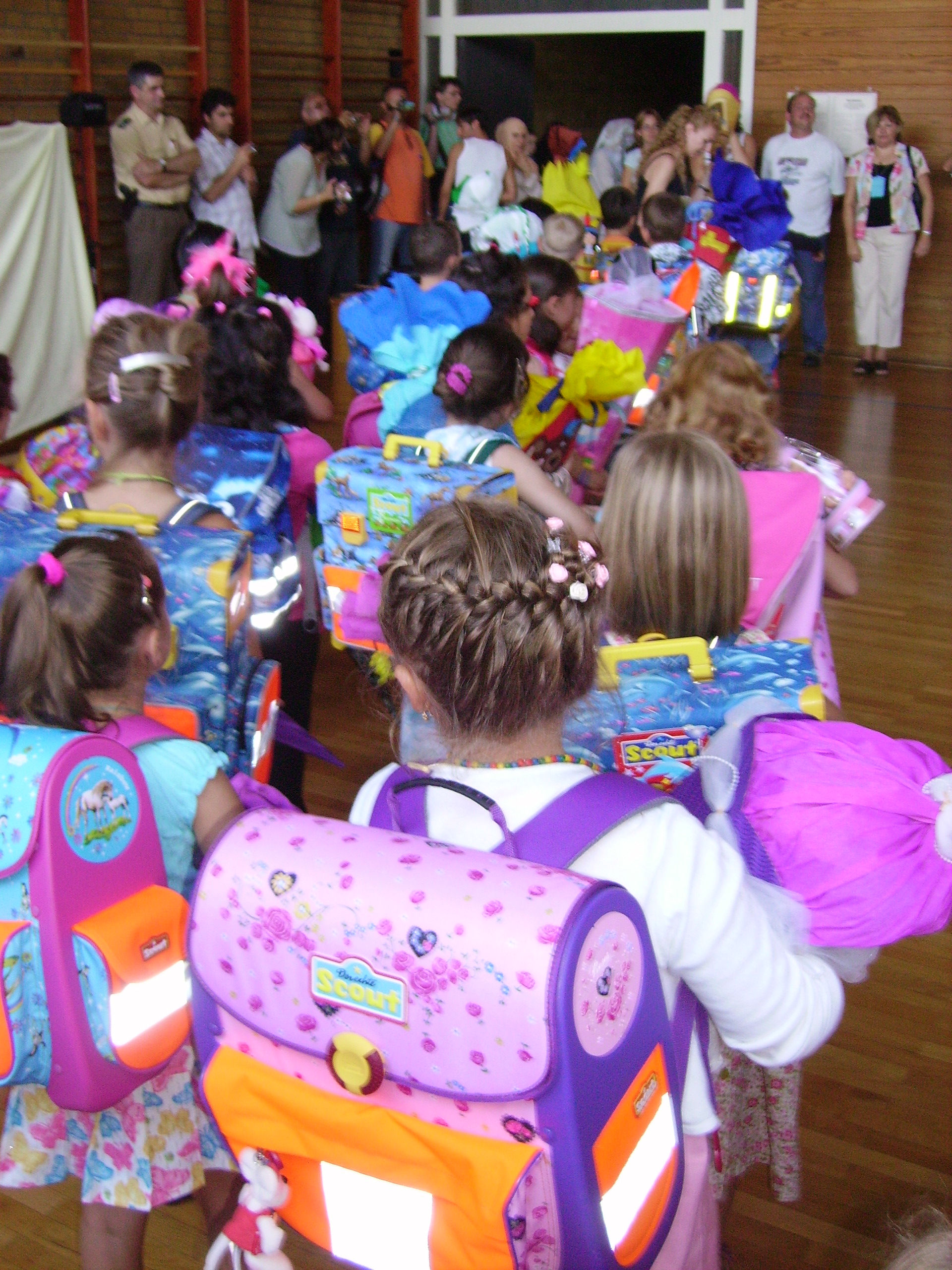 primary school - first grade pupils in Germany